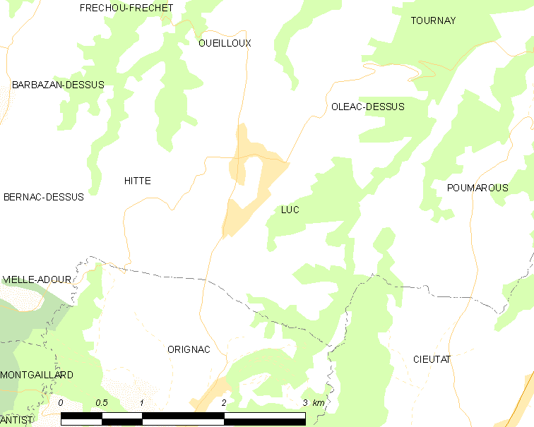 Map of French municipality